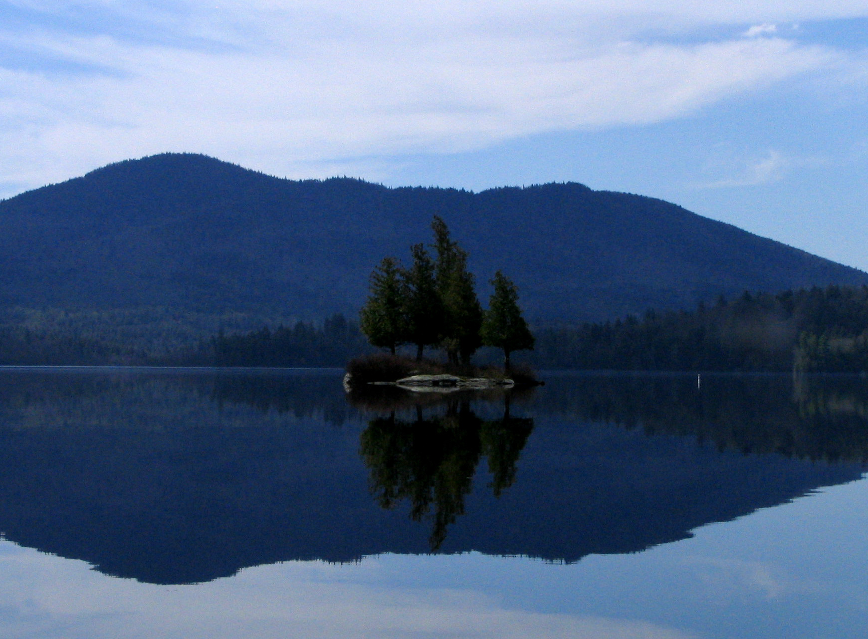 Small island in Middle Saranac Lake, Stony Creek Mountain in background. Taken by User:Mwanner, 10 May, 2007.